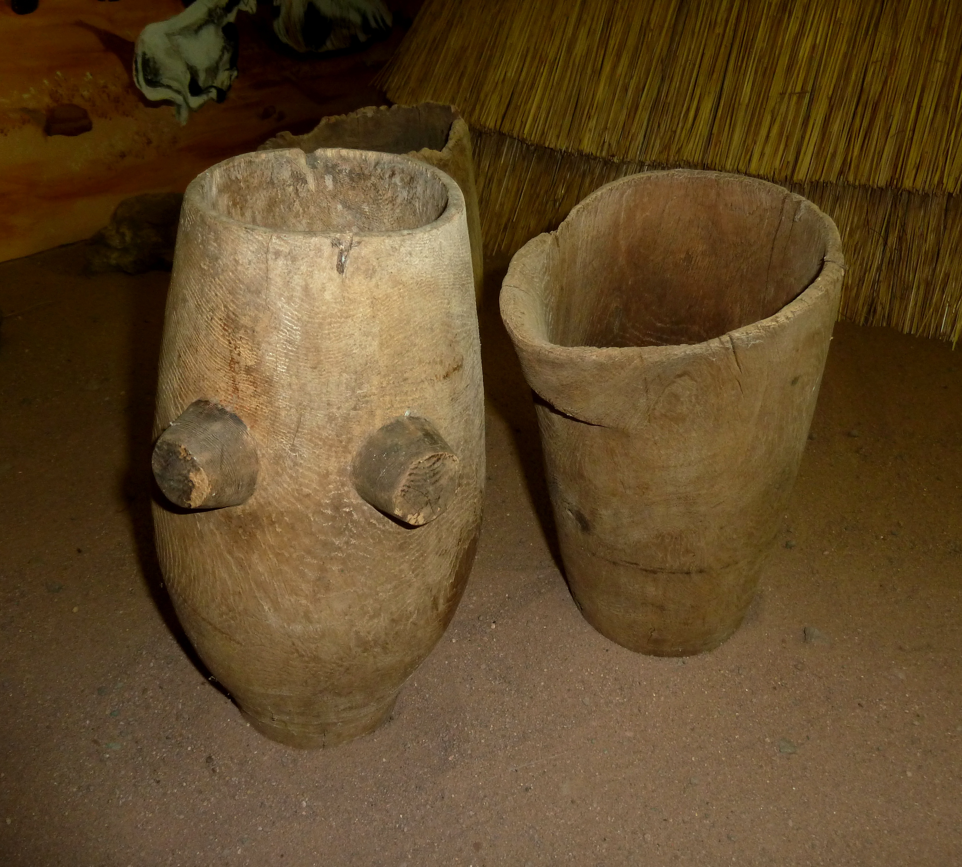 Zulu milk pails (amaThunga, singular: iThunga) at the Zulu Historical Museum at Mthonjaneni, northern KwaZulu-Natal